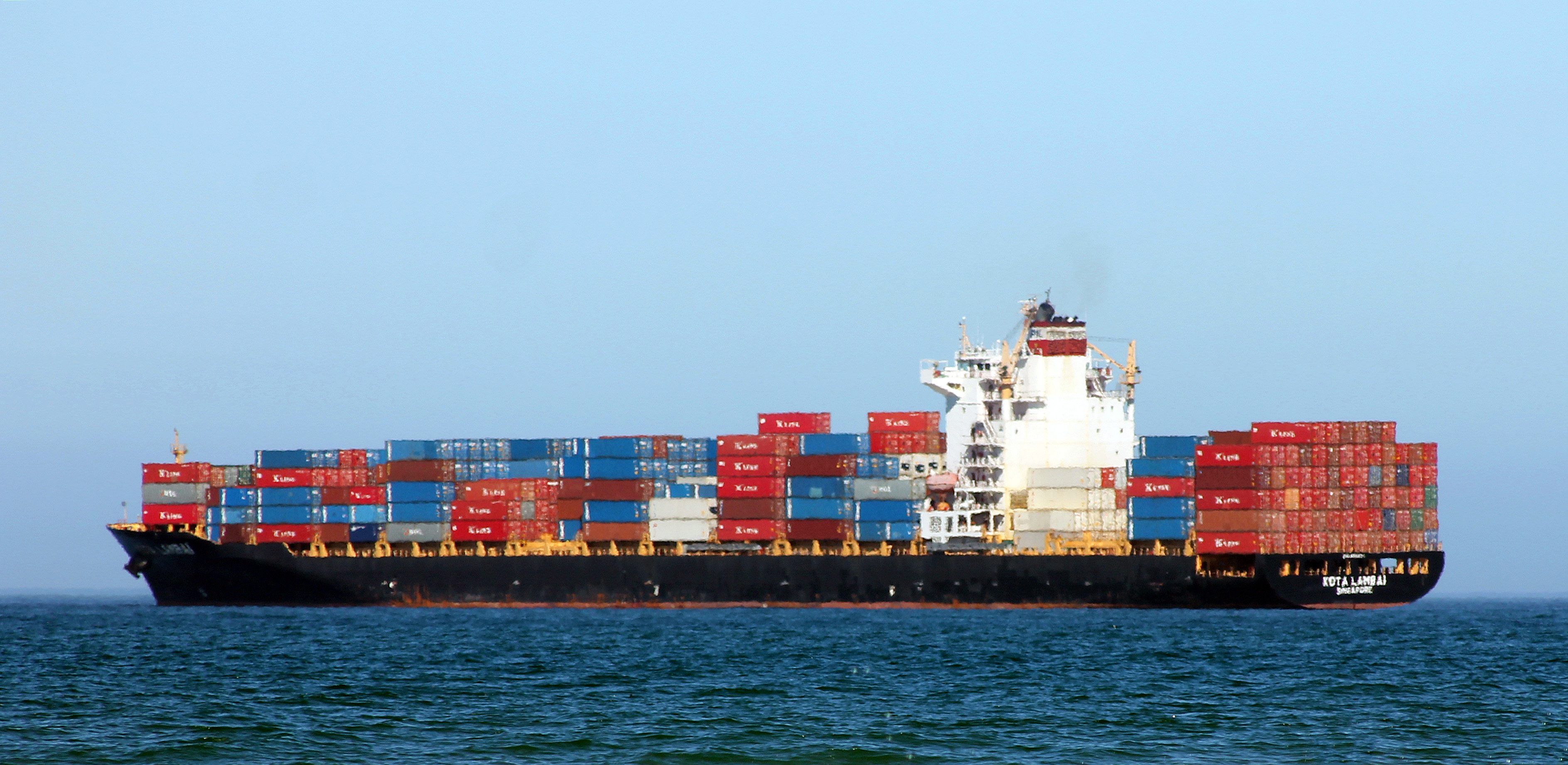 Container ship Kota Lambai, Cape Town